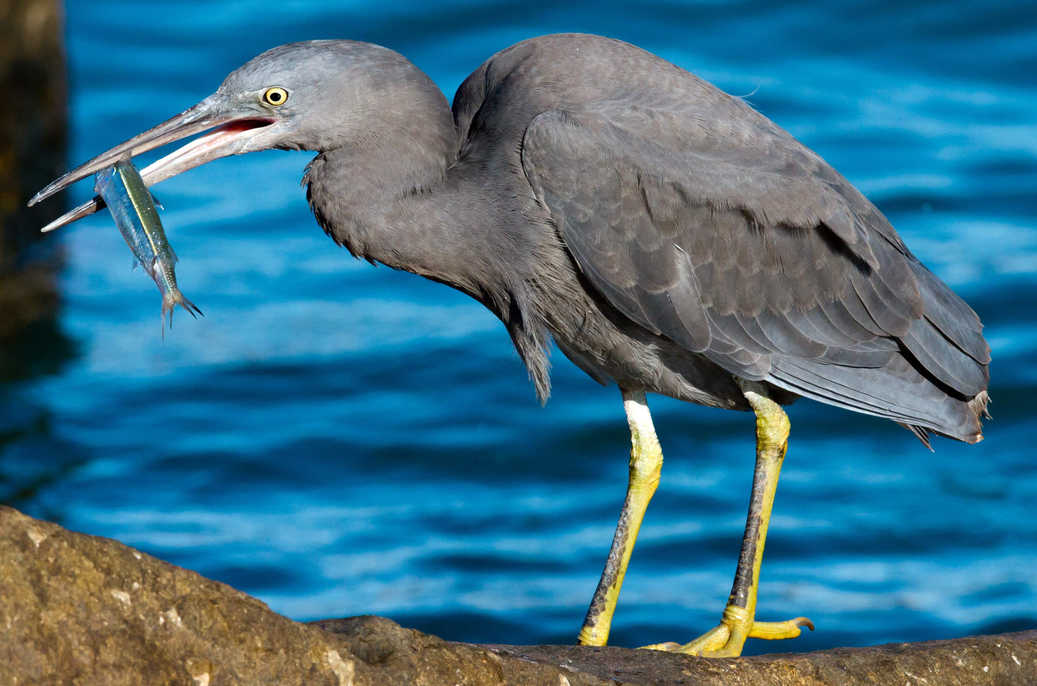 A Pacific Reef Heron in Karratha, Pilbara, Western Australia, Australia.